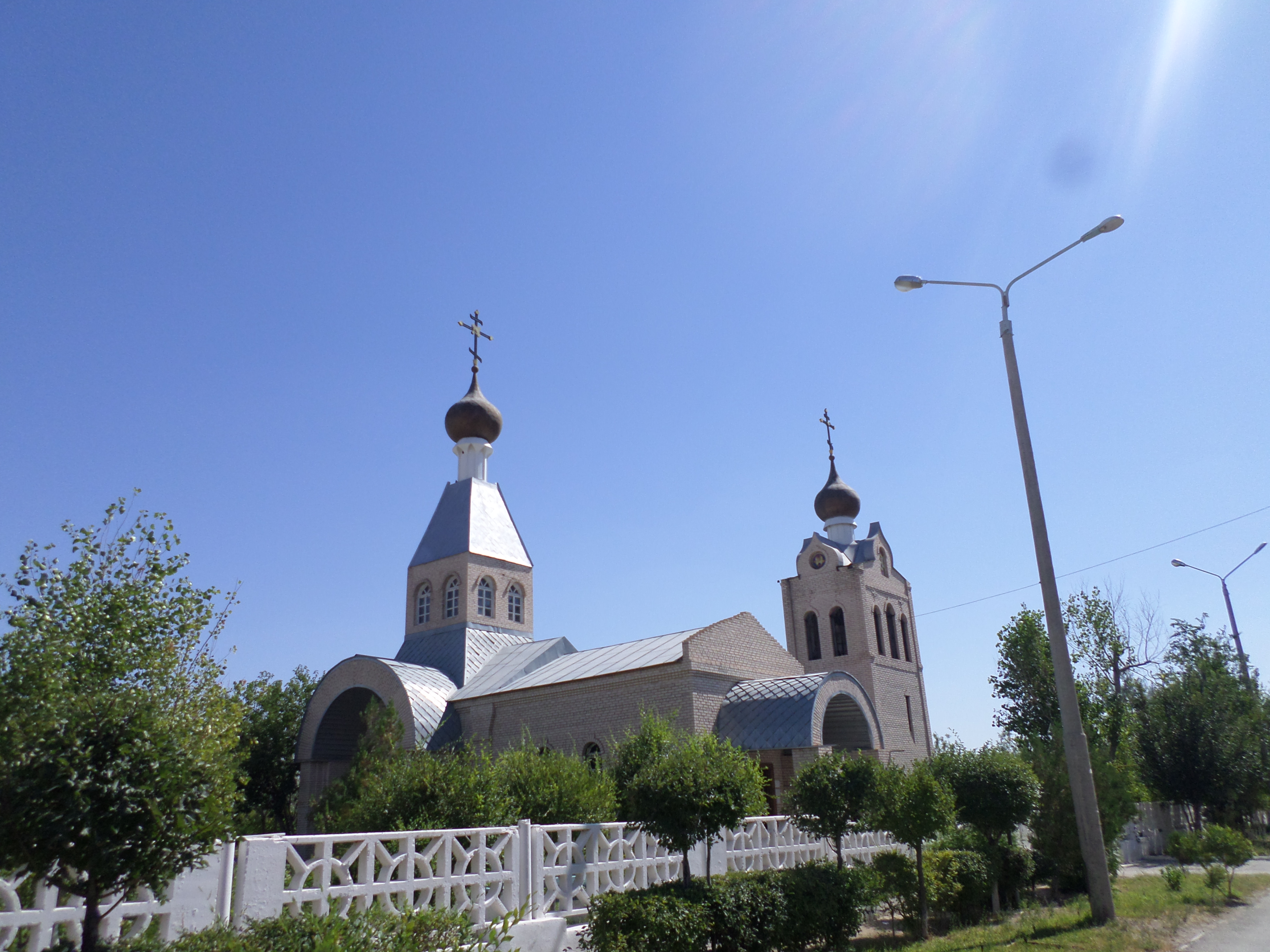 Church in Zarafshon